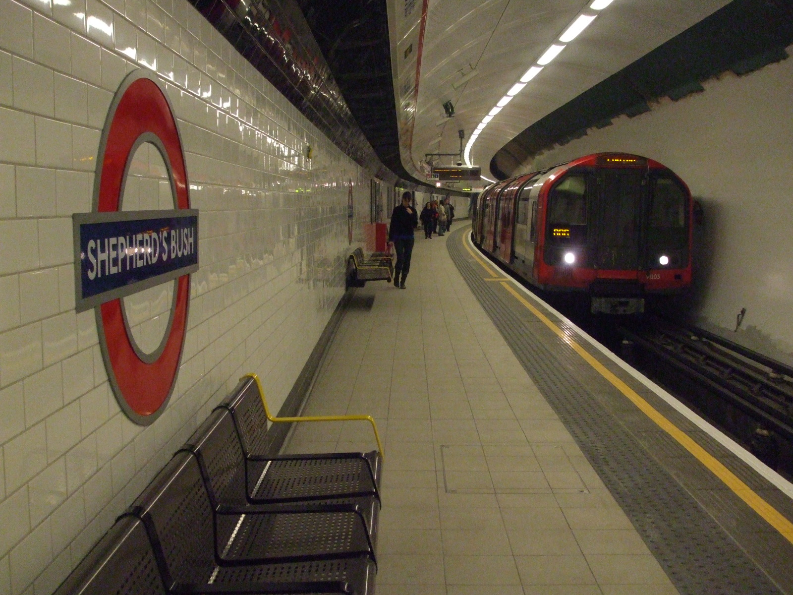 Shepherd's Bush tube station (Central line) eastbound platform looking west, with a train of 1992 stock calling